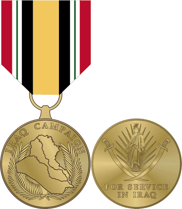 Iraq Campaign Medal (with reverse) of the United States Armed Forces.